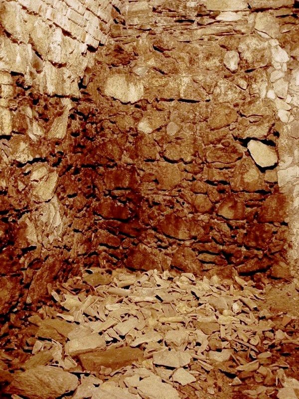 This Cess pool has human bones and other rubbish left over from when it was used as waste disposal and latrine. After the prisoners were tortured to death or executed the bodies were dumped here, above was the toilet that the warden used to defecate on the dead bodies.